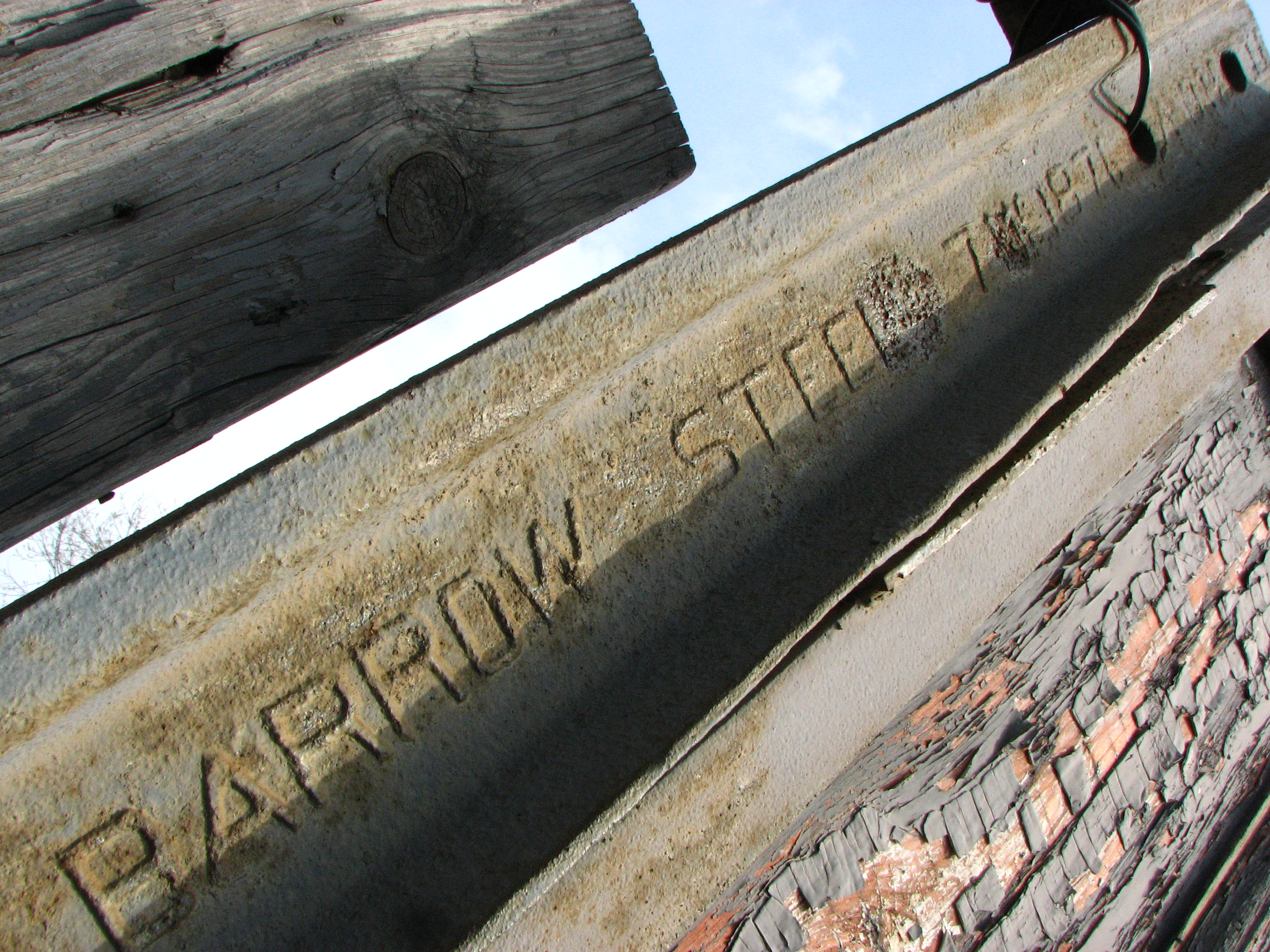 Original Barrow Steel rail of 1876 in Luhansk.